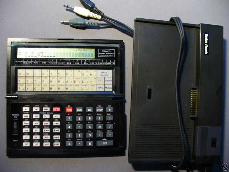 Photo taken by Mike Terry.